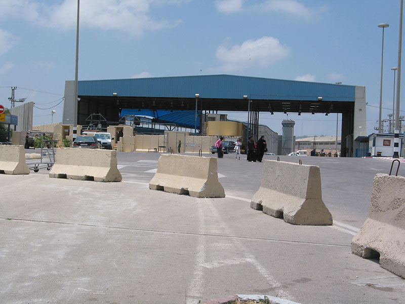 Erez Crossing at the northern end of the Gaza Strip. This is the main crossing point for Palestinians of the Gaza Strip wishing to enter Israel. This photo was taken by me in July 2005 and is put into the public domain. --Zero0000 14:28, 25 July 2005 (UTC)